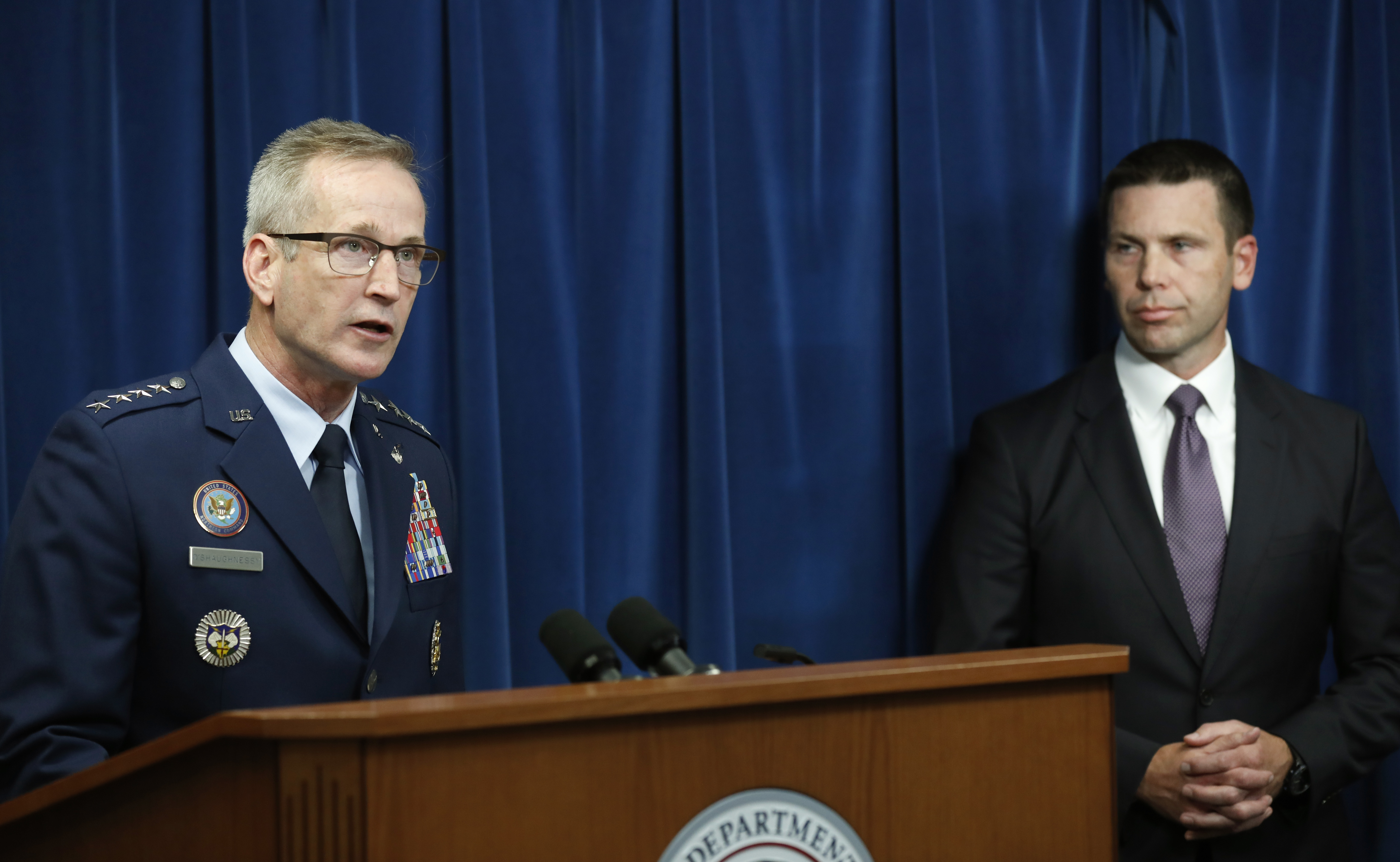 U.S. Customs and Border Protection Commissioner Kevin McAleenan, Commander, United States Northern Command and North American Aerospace Defense Command General Terrence John O'Shaughnessy, and Assistant Secretary of Defense for Homeland Defense and Global Security Kenneth P. Rapuano host a joint press conference on the impending Department of Defense deployment to the Southwest border.October 29, 2018. U.S. Customs and Border Protection Photo by Glenn Fawcett